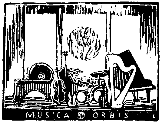 Musica Orbis instruments on stage with MO banner behind. Woodcut, Kitty Brazelton, 1975.